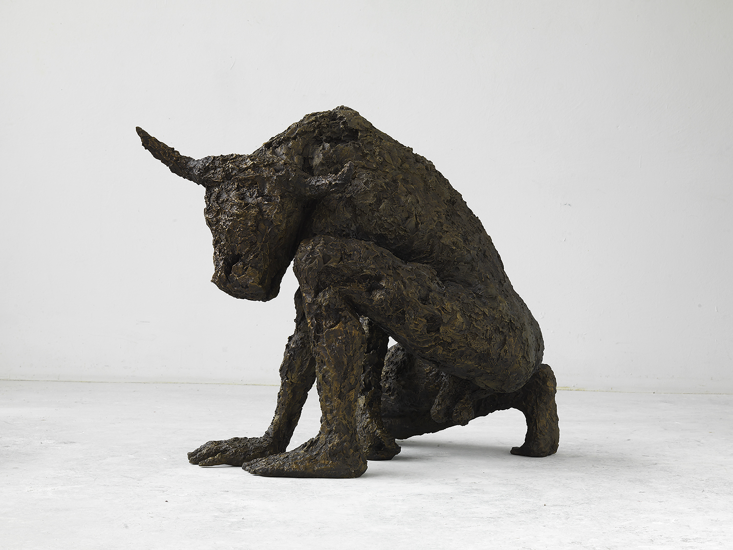 "Minotaur" bronze mythological figure by the artist Stuart Wolfe